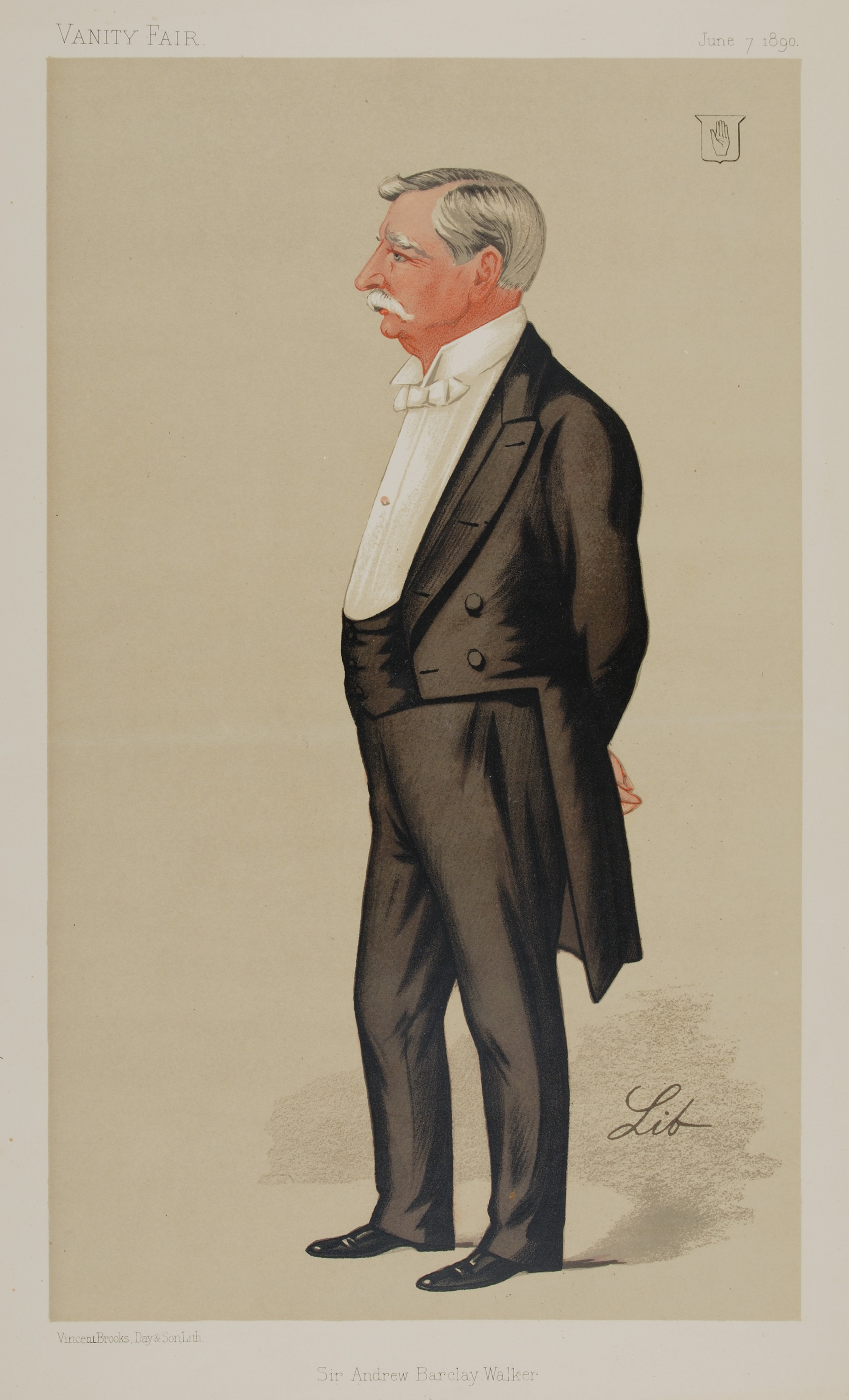 Men of the Day No. 471: Sir Andrew Barclay Walker, Bart., D.L., J.P.. Lithograph June 7, 1890, 15"x10.5", Vanity Fair portrait. Caption: "Sir Andrew Barclay Walker".